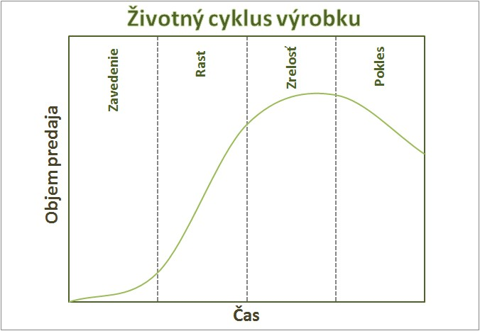 Product Life Cycle